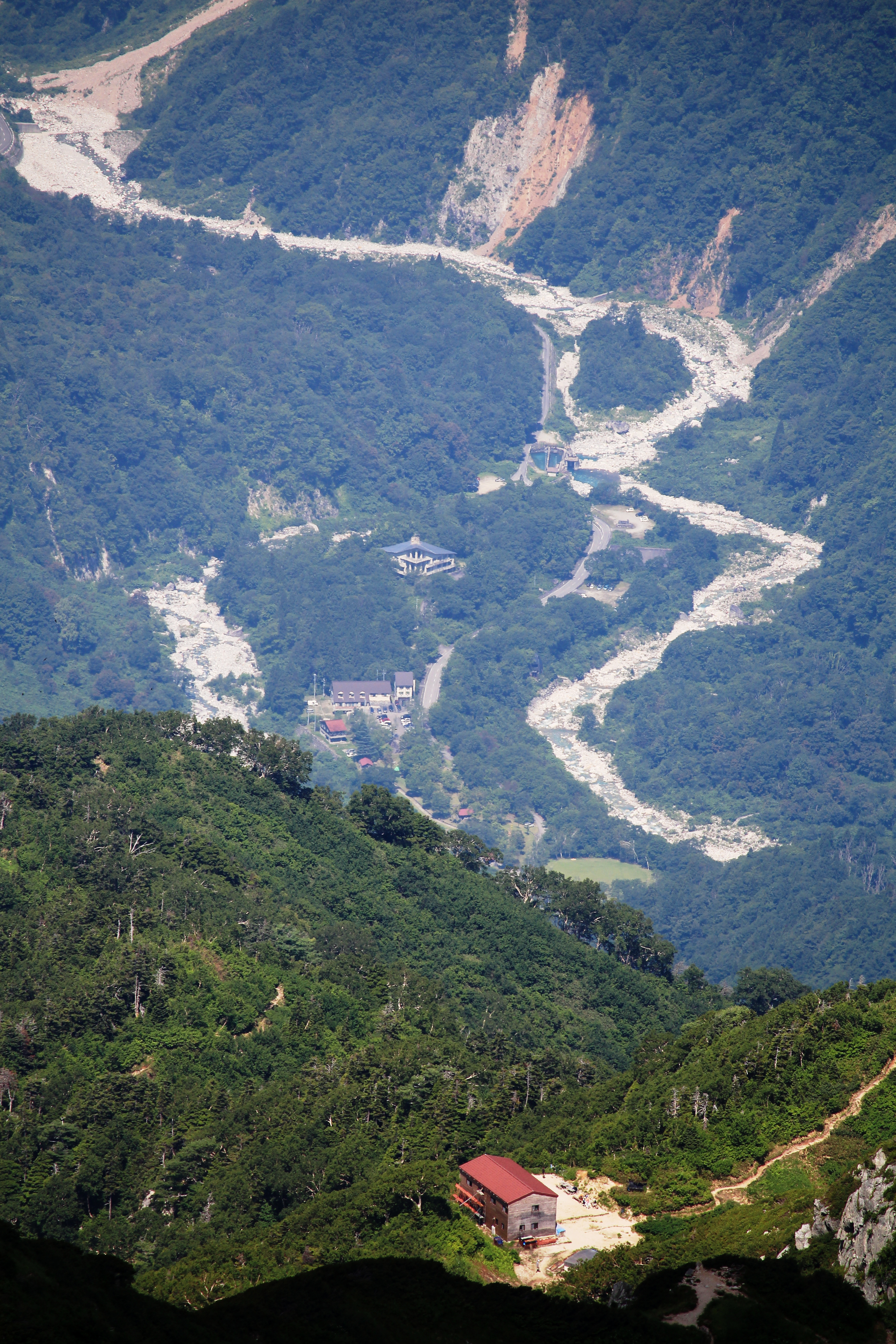 Hayatsuki River and Hayatsukikoya ("Hayatsuki Hut") on the Hayatsuki Ridge seen from the top of Mount Tsurugi in Kamiichi Town, Toyama Prefecture, Japan